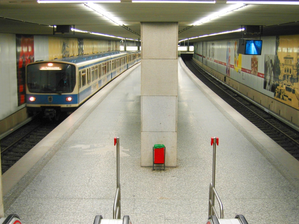 Munich subway station Königsplatz